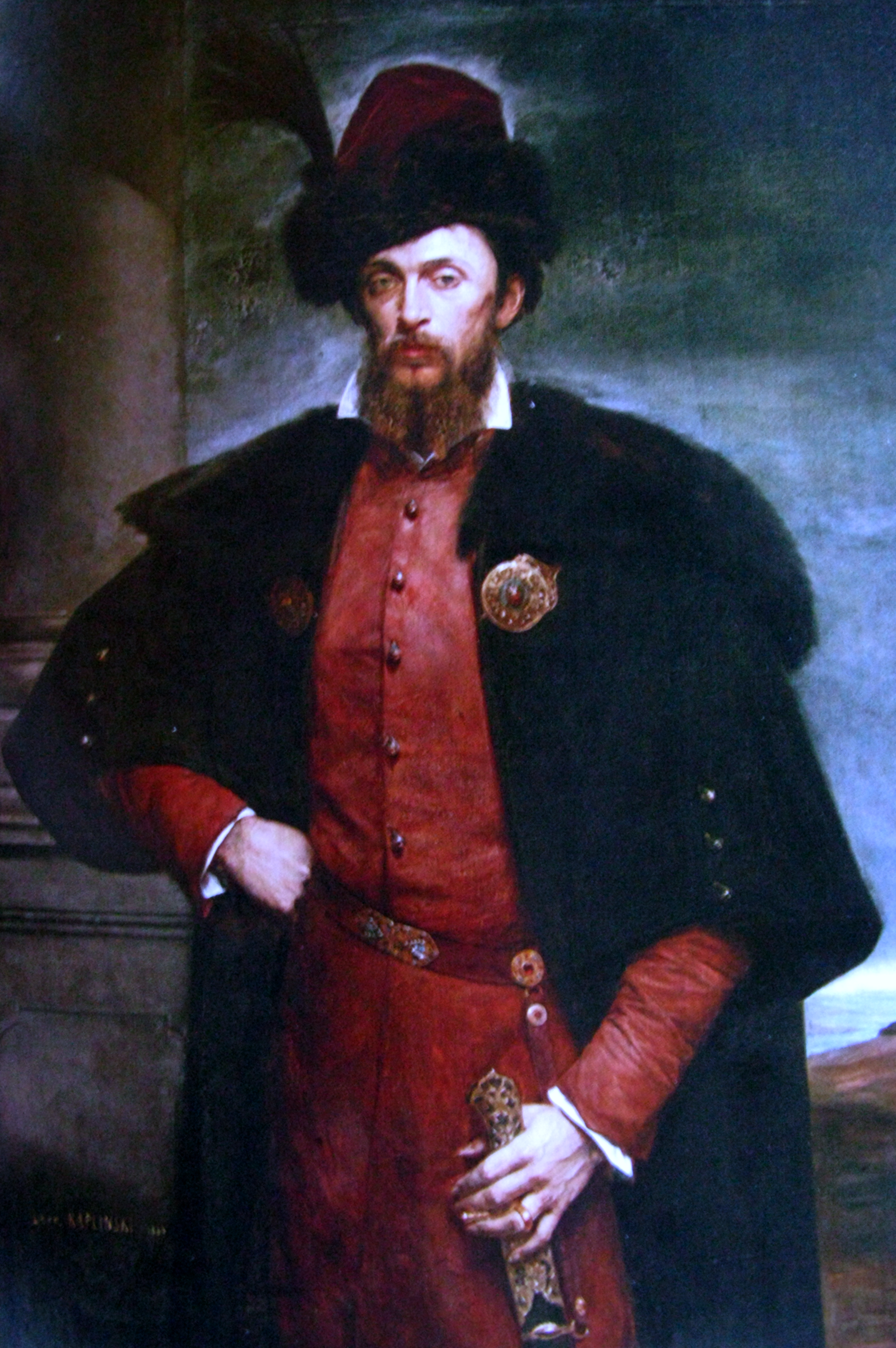 Jan Kanty Działyński by Leon Kapliński 1864